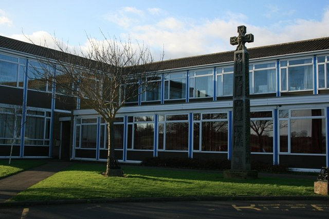 Caedmon School Whitby's secondary school.